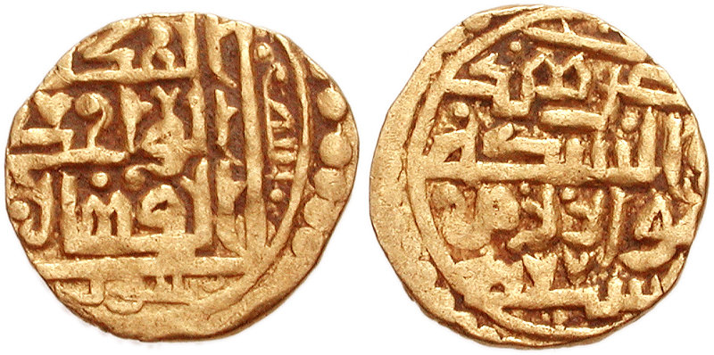 ISLAMIC, Persia (Post Mongol). Sufids. temp. Yusuf. AH 774-781 / AD 1372-1379. AV Fractional Dinar (17mm, 1.12 g). Khwarizm mint. Dated AH 777 (AD 1375/6). Legend beginning “al-malk” / Mint and AH date. SICA 9, -; cf. Album 2063 (temp. Husayn); cf. Zeno 6900. Near VF, traces of encrustation. Very rare.